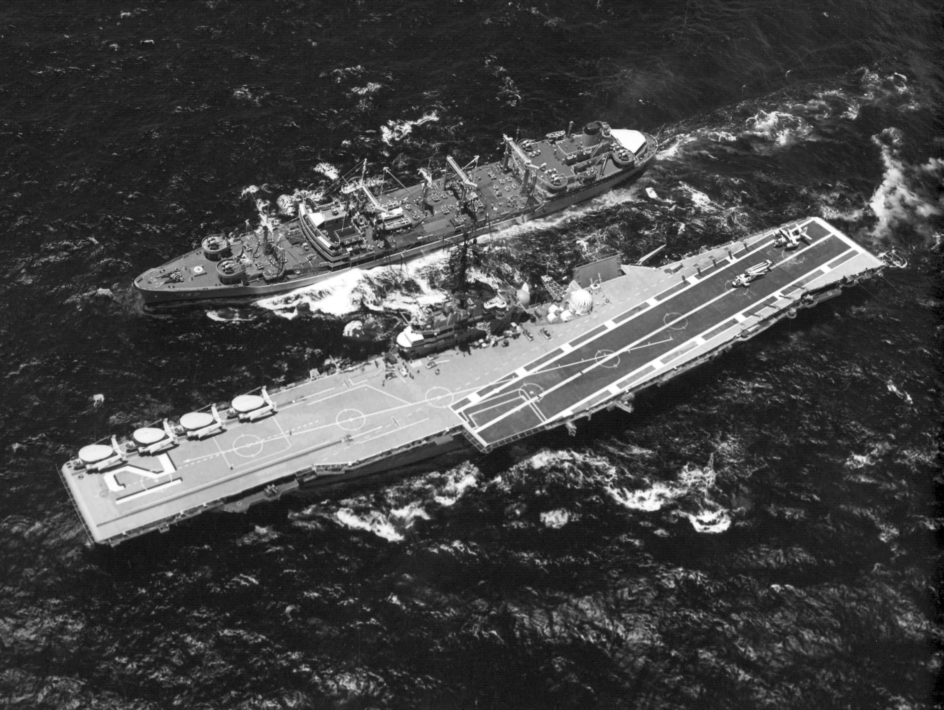 The U.S. Navy oiler USS Hassayampa (AO-145) refuels the aircraft carrier USS Hornet (CVS-12) during the ship's participation in the recovery of the Apollo 12 space capsule and astronauts.